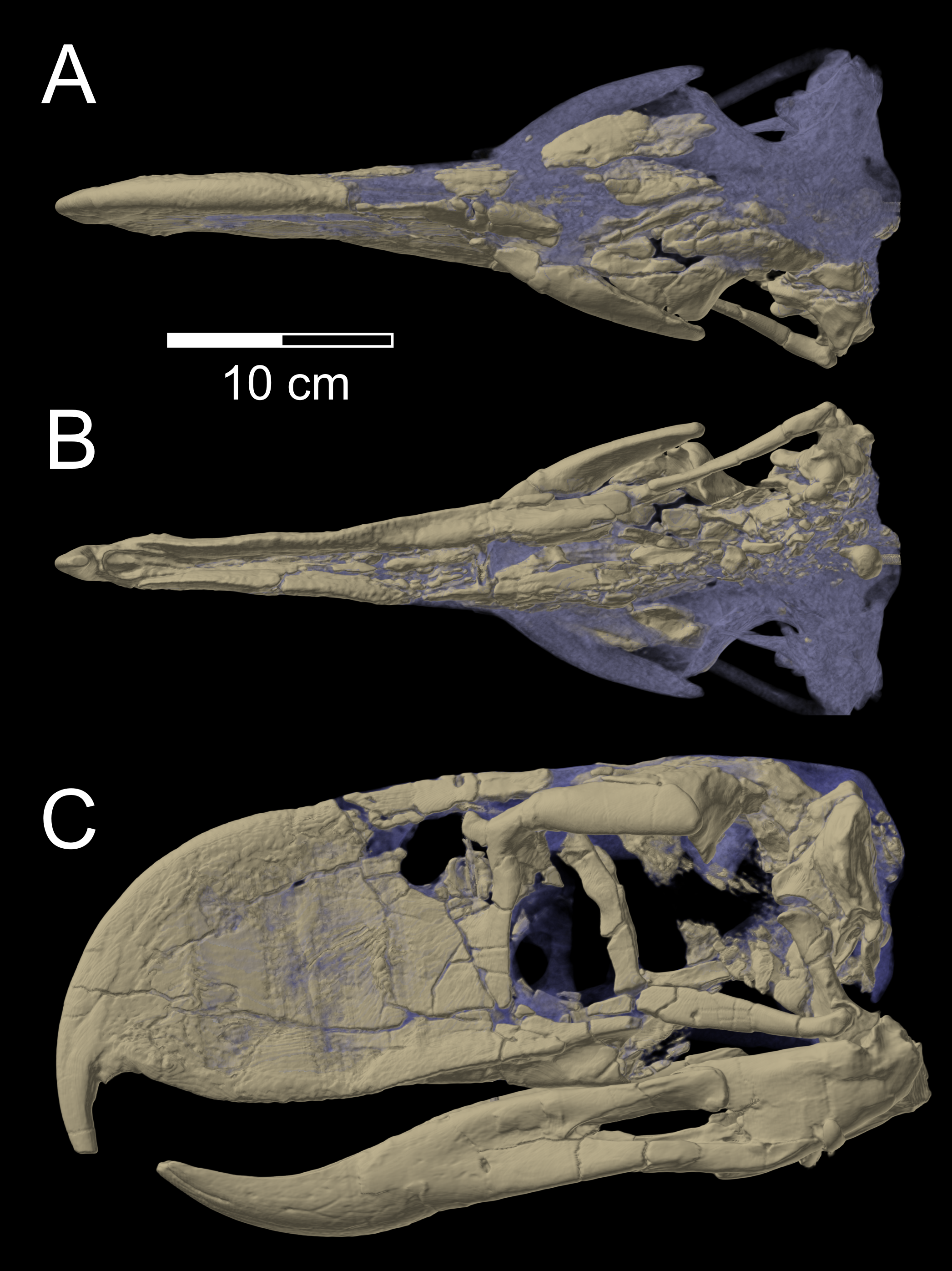 Skull of the terror bird Andalgalornis steulleti (FMNH P1435). A, dorsal view, B, ventral view, and C, left lateral view, based on volume rendering of CT scan data. Fossil bone is shown in light brown, and rock matrix and plaster restoration are shown in grey.